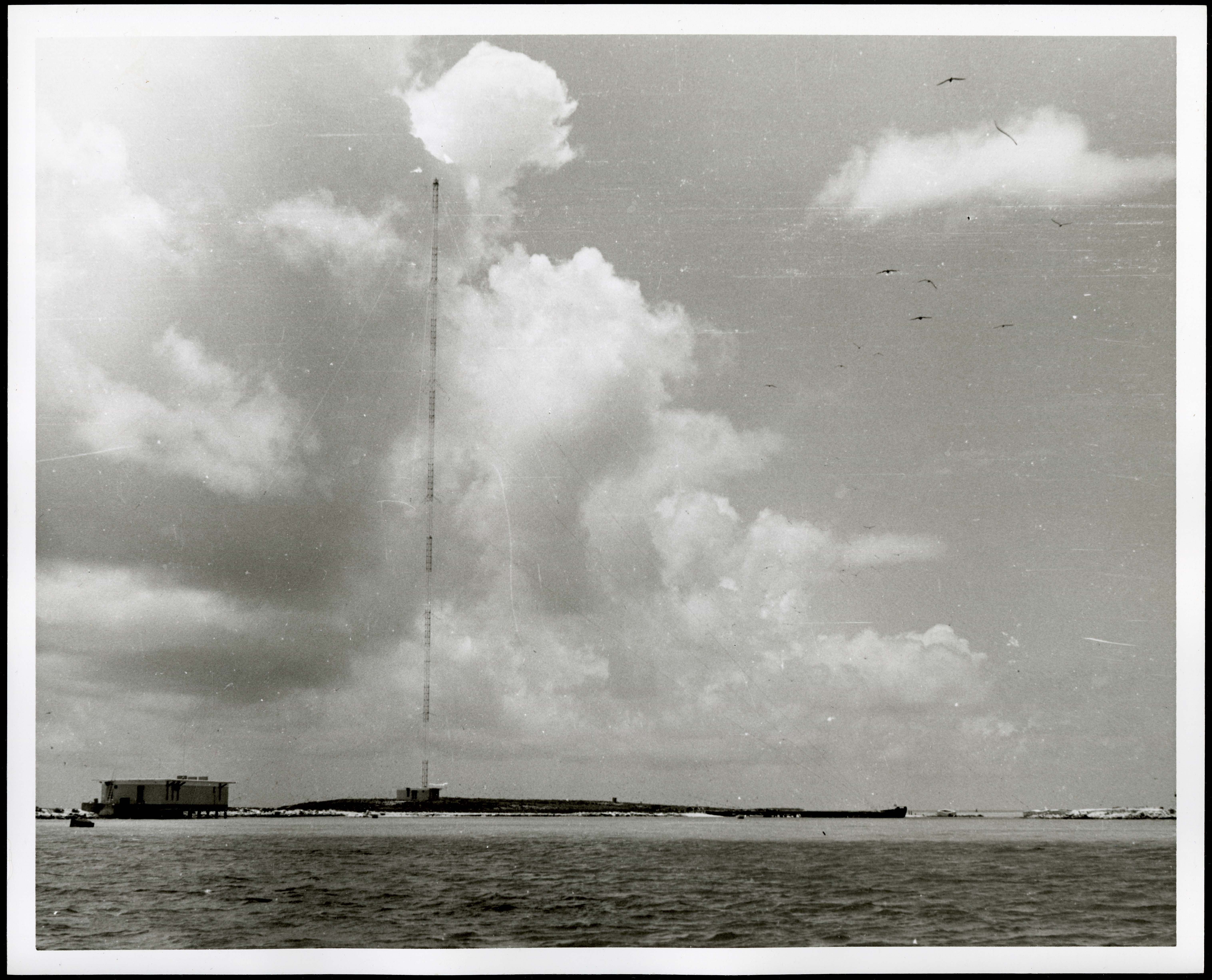 Creator: unknown Local number: SIA2013-08808 Summary: Photograph was taken as part of field documentation for the Pacific Ocean Biological Survey Program, on Sand-Johnston Island [Johnston Atoll], 1963. Dates: 1963 Collection: RU 000245, National Museum of Natural History, Pacific Ocean Biological Survey Program, records, circa 1961-1973, with data from 1923; Box 225, Folder 3. Repository: Smithsonian Institution Archives View more collections from the Smithsonian Institution.